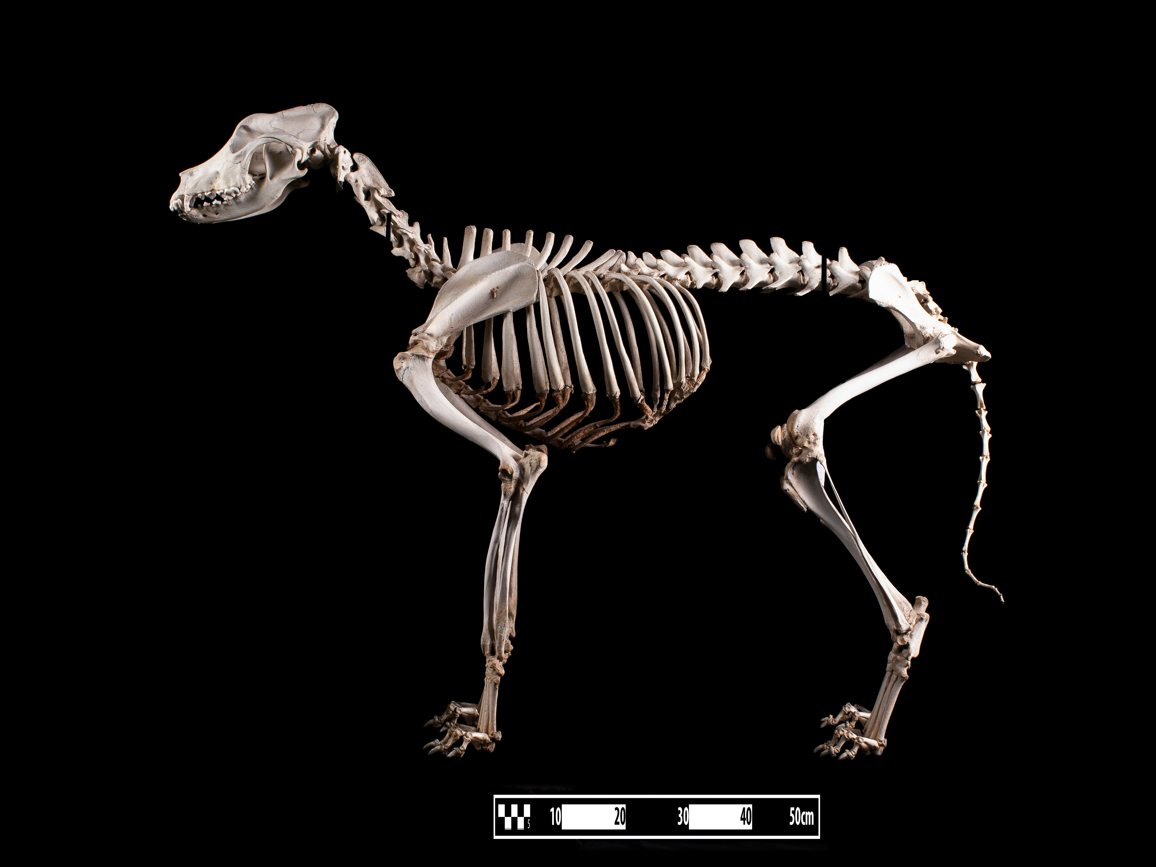 Specimen of German Shepherd skeleton prepared by the bone maceration technique and on display at the Museum of Veterinary Anatomy, FMVZ USP